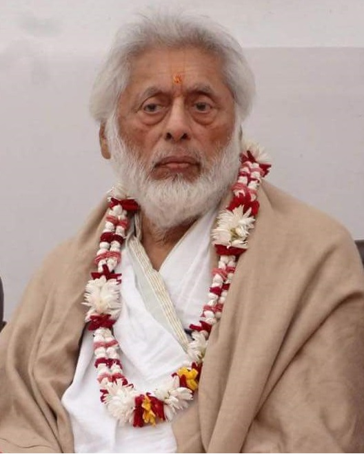 File photograph taken of Shri Shyam Manohar Goswamiji